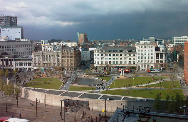 Piccadilly Gardens View looking across Piccadilly Gardens.